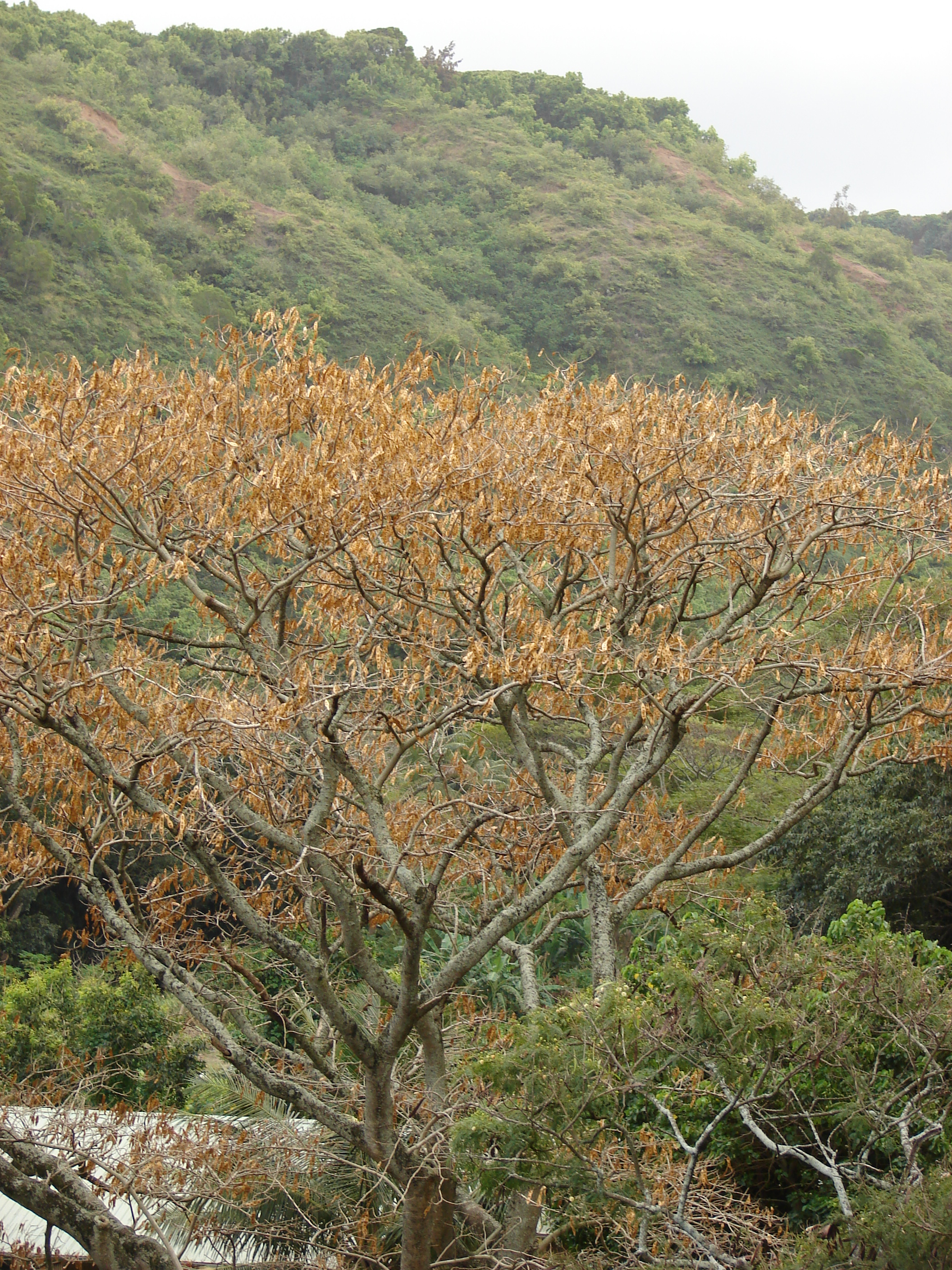 Albizia lebbeck (fruiting habit). Location: Maui, West Maui